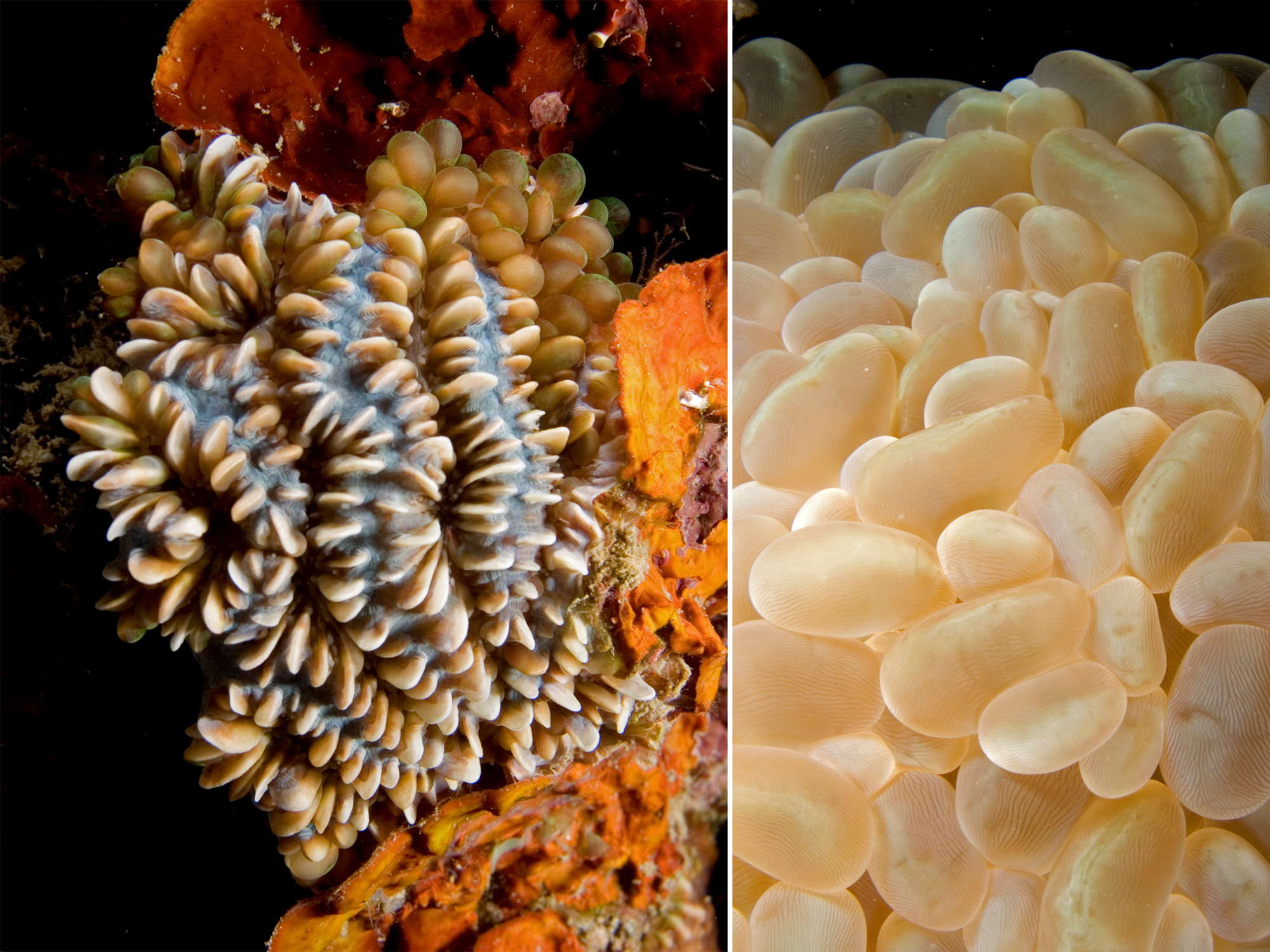 Plerogyra sinuosa (Bubble coral) with membranes retracted on left and membranes extended on right